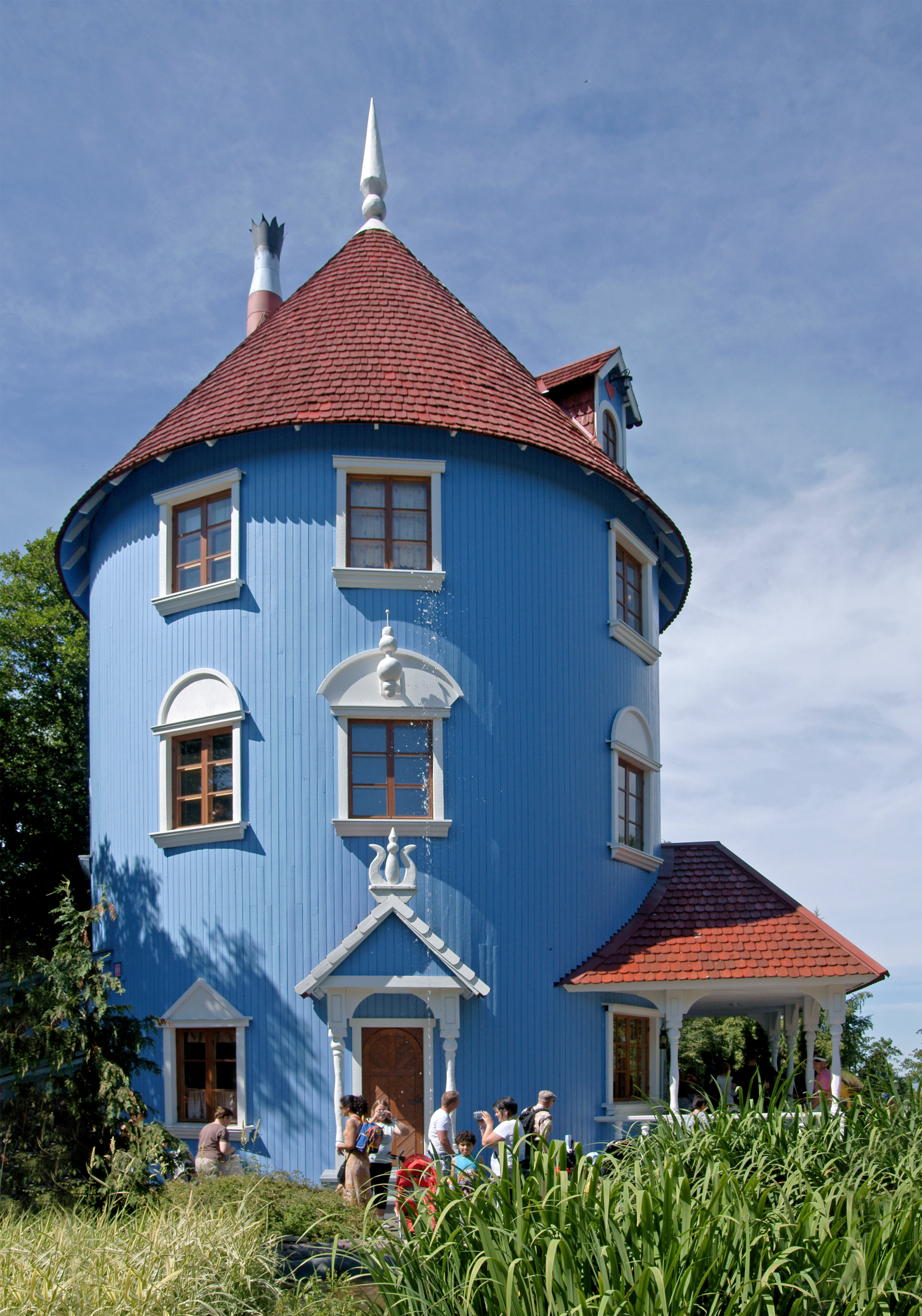 Human-size Moominhouse in Moomin World theme park, Naantali, Finland.